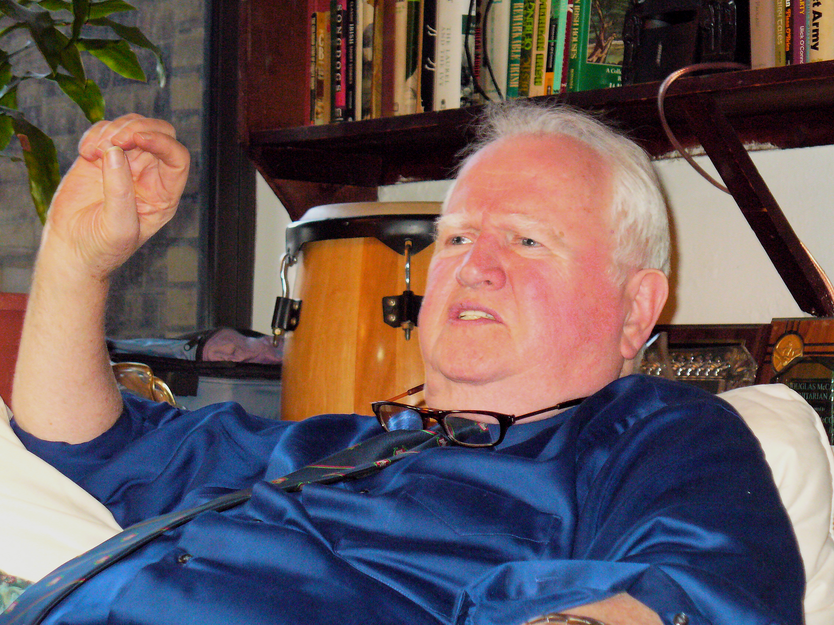 Malachy McCourt at his home in Manhattan. Photographer's blog post about the death of brother Frank McCourt, whom he also photographed.